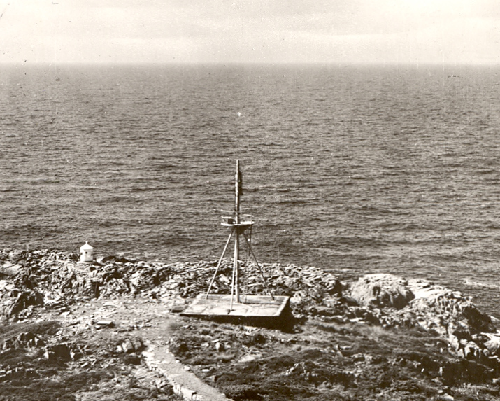 The fog-horn at Kullen lighthouse, Sweden